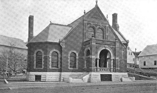 Gardner Museum in Gardner, Massachusetts. Formerly, the public library